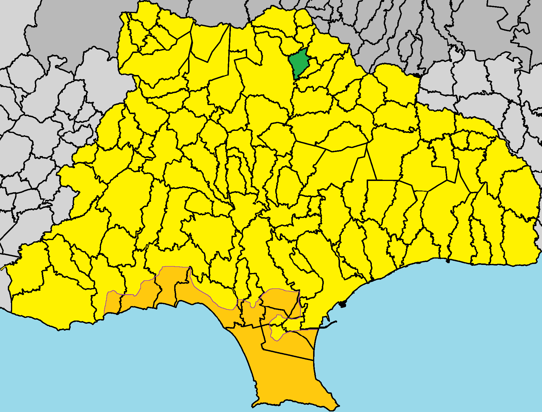 Potamitissa in Limassol District.